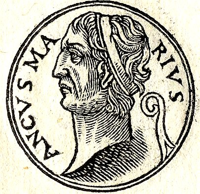 Ancus Martius was the fourth of the Kings of Rome.